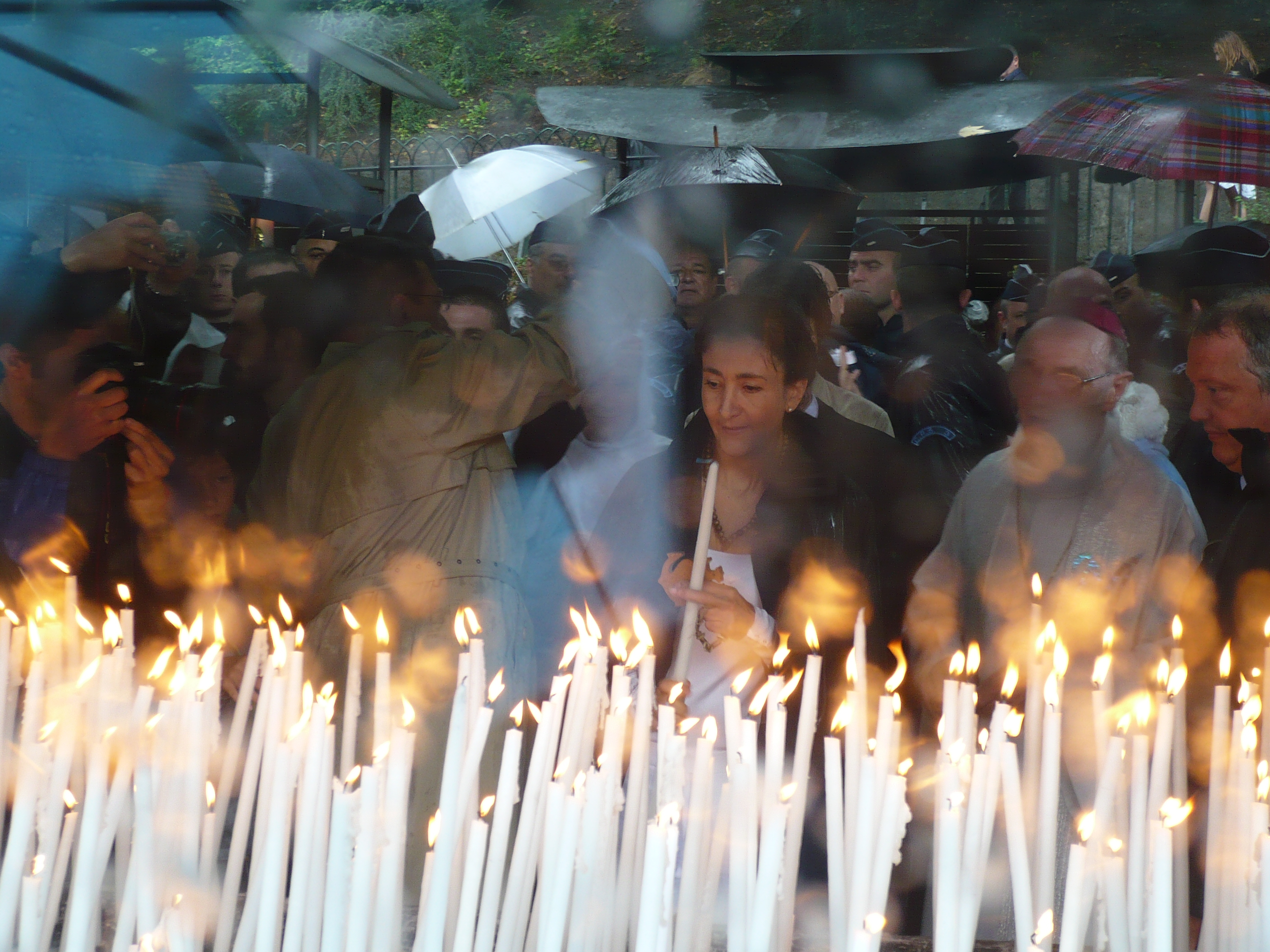 Ingrid Betancourd with religious candles